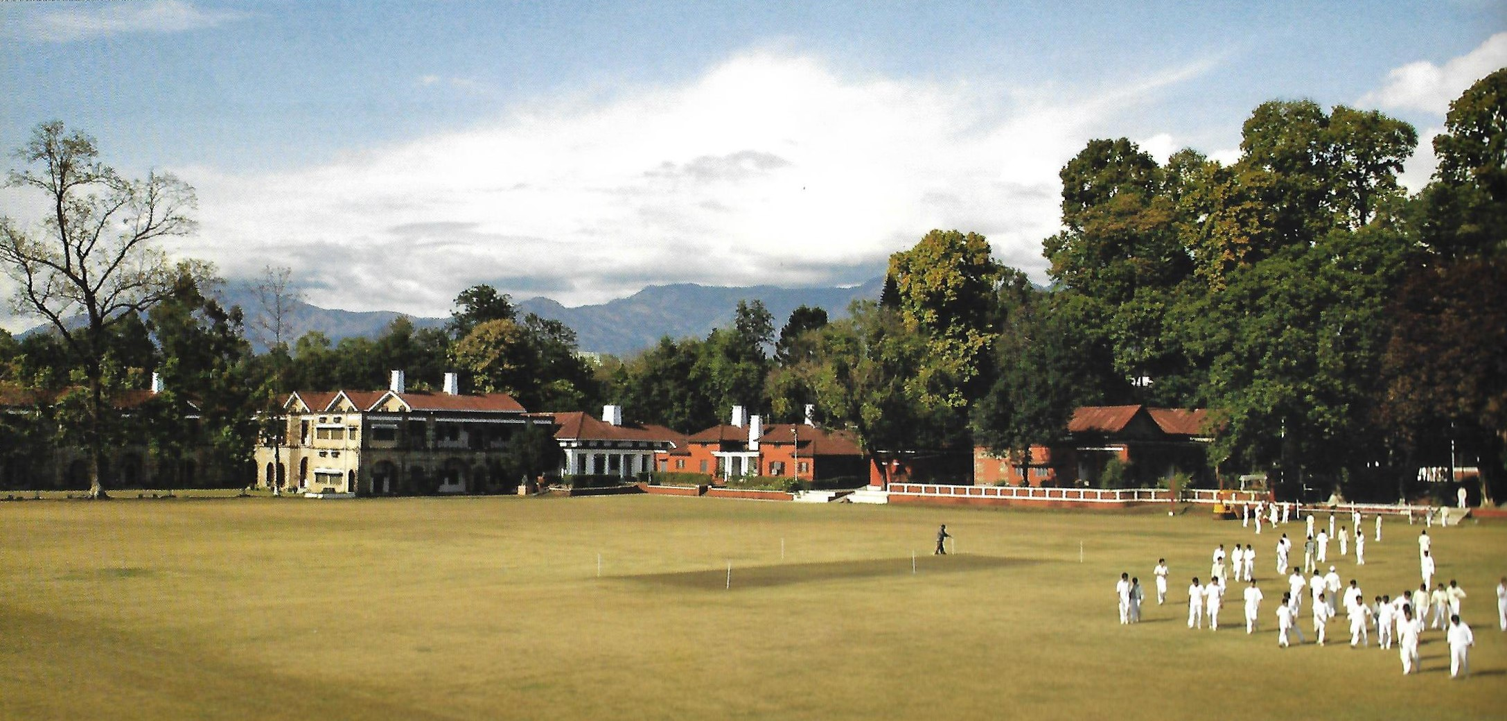 Main Field at The Doon School, Dehradun, India, with Shivalik Hills in the background.